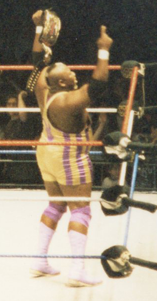 A image of professional wrestler Mo. Other information This is a cropped version of a public domain image from Wikimedia Commons.